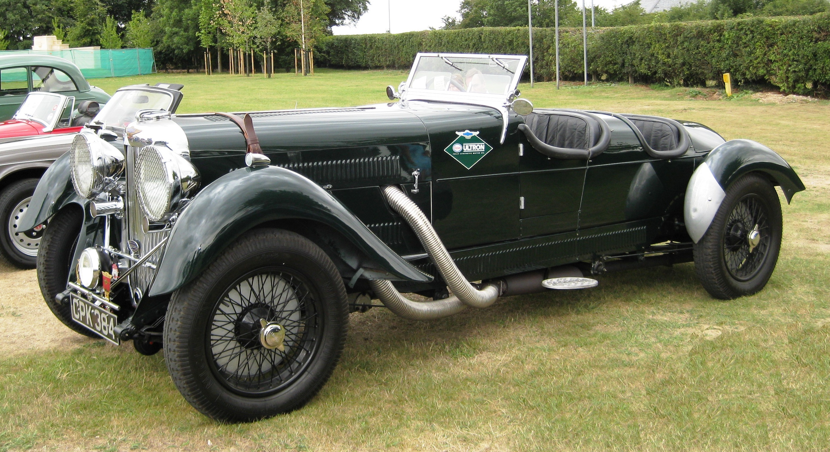 Laganda M45 Roadster at Duxford